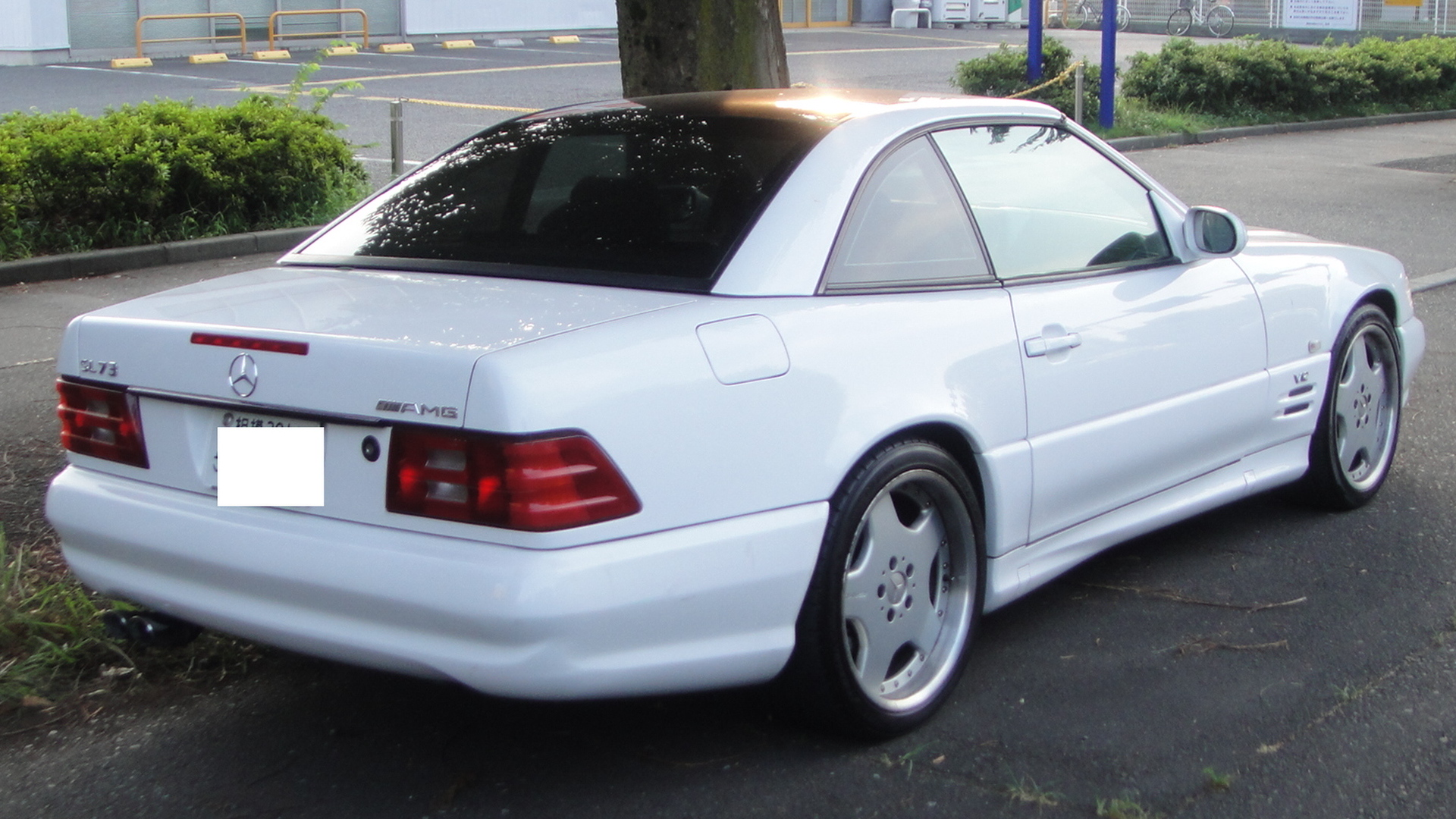 Mercedes AMG SL73